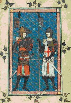 Manuscript illustartion of an earl of Lancaster, probably Edmund Crouchback, Edward I's brother, standing beside St George. From Bodl. Oxf., MS Douce 231 (fol. 1), a Sarum Book of Hours made in the diocese of Lincoln, dated c. 1325-1330.[1]